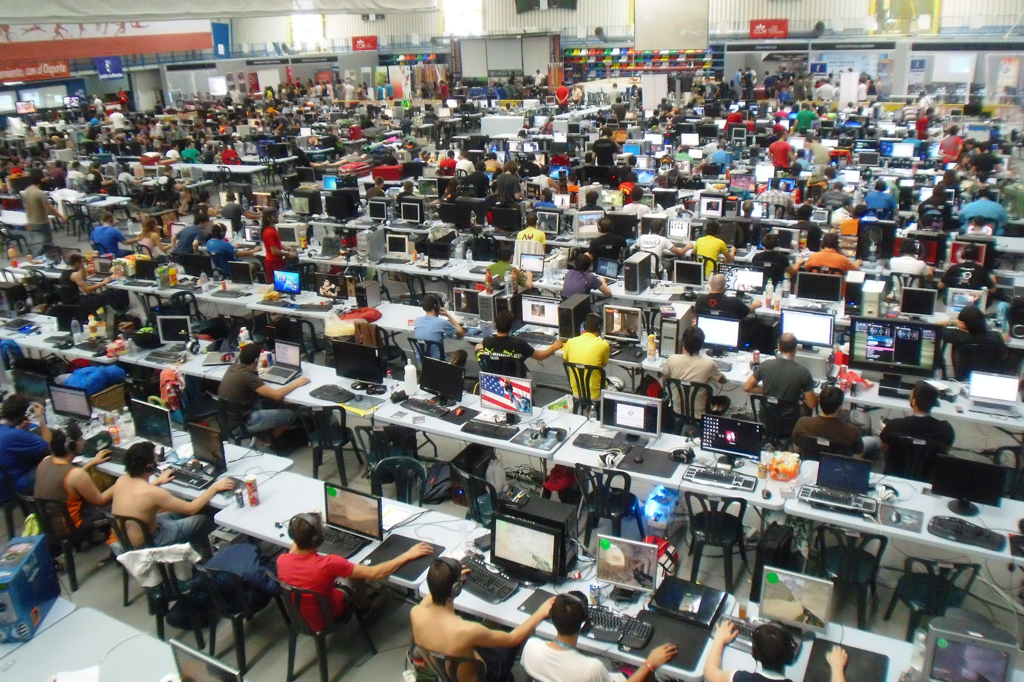 Participants of Party Quijote 2010 at Azuqueca de Henares